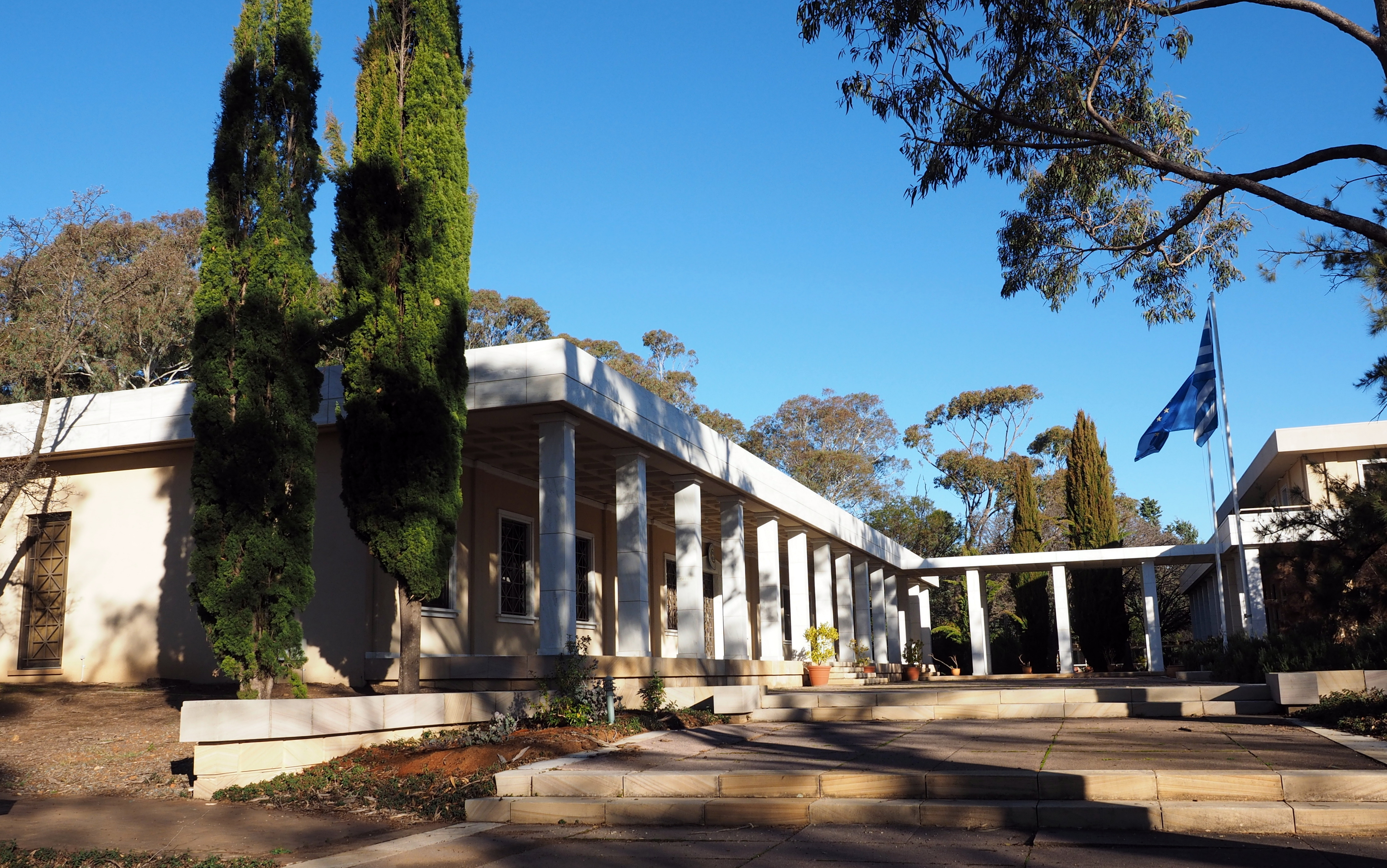 The Greek embassy in Canberra. The building at the left in the chancellery, and that at the right is the residence.